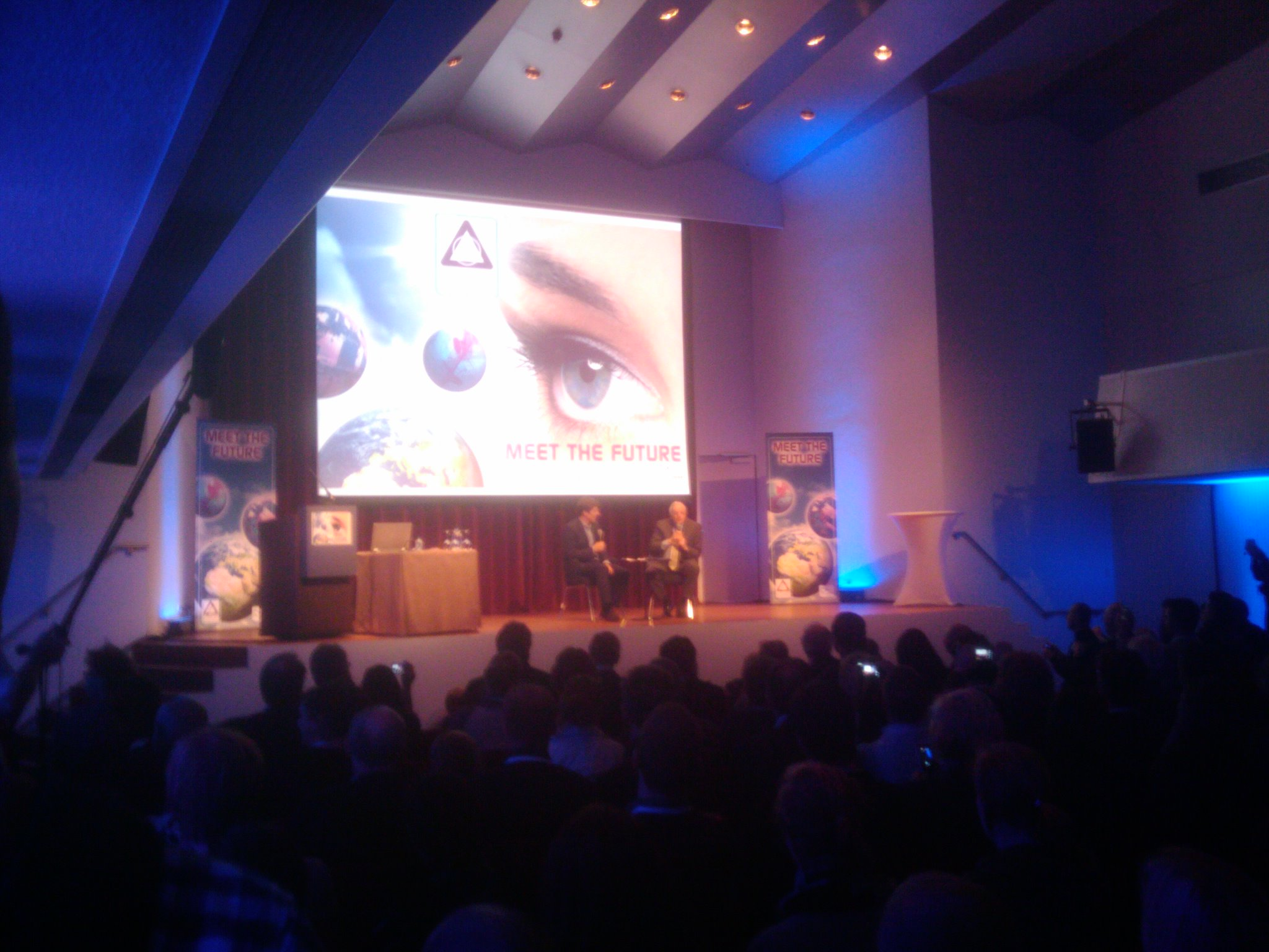 Neil Armstrong speaks with Twan Huys at the Meet the Future, Science & Technology Summit 2010 (wide shot)